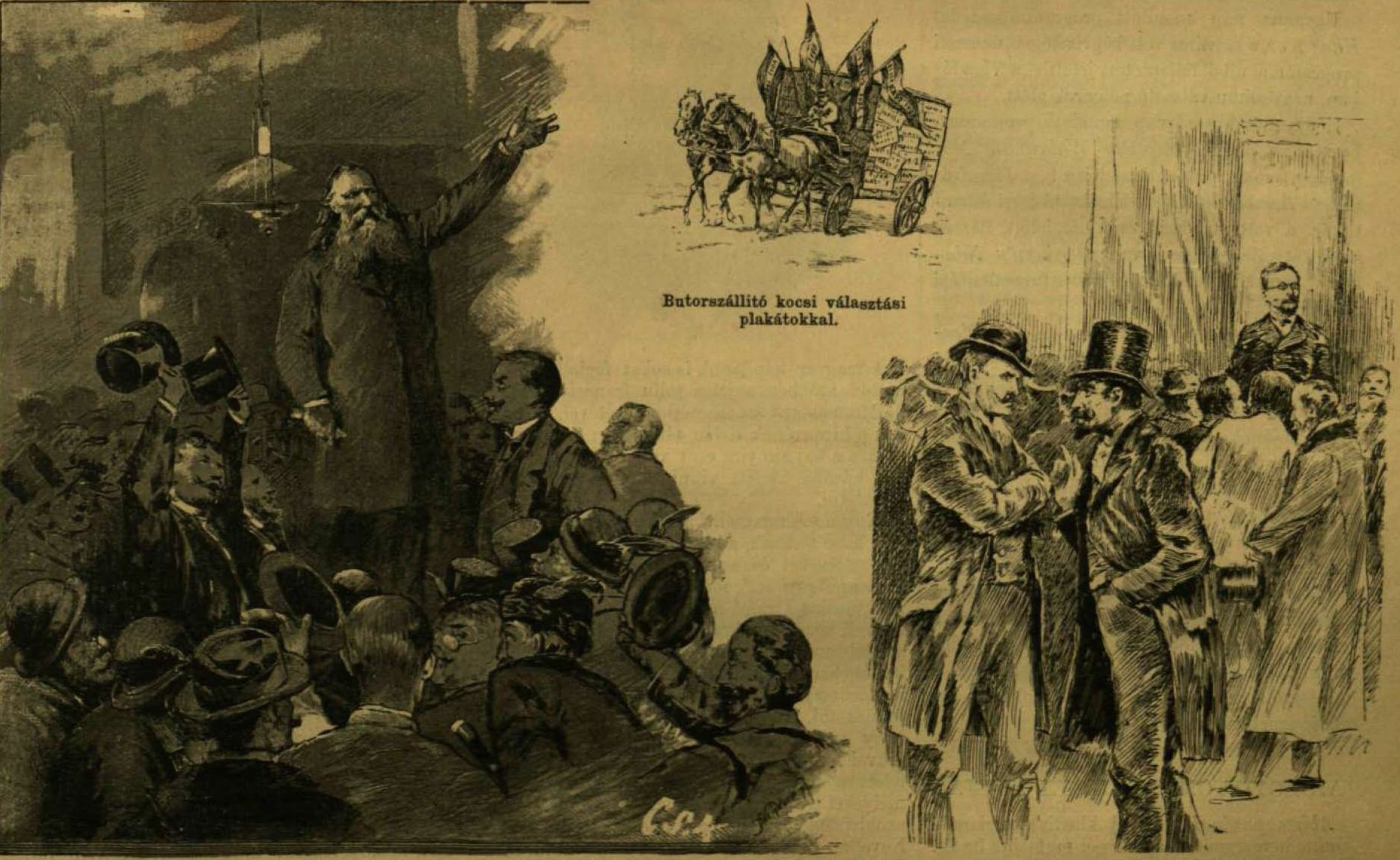 Election campaign in Hungary in 1892.